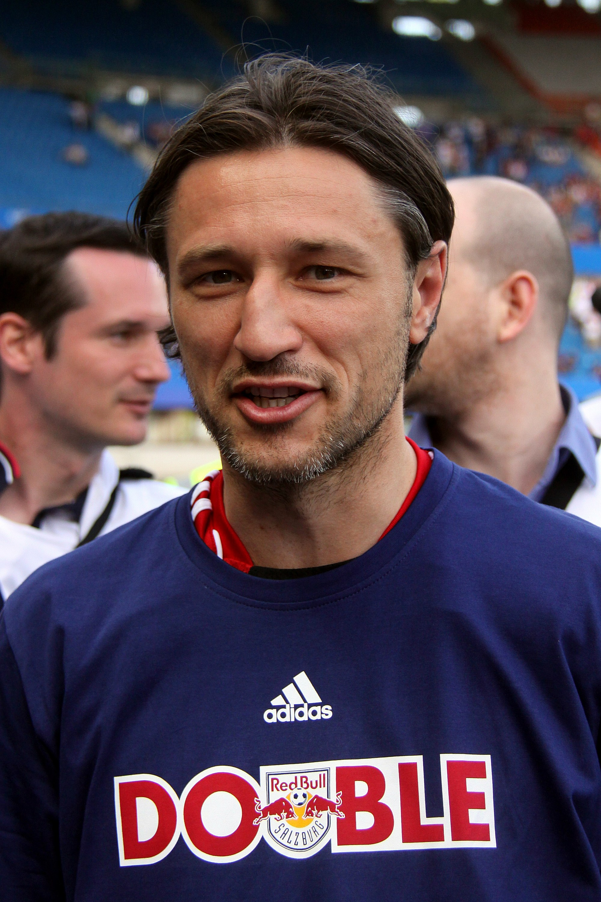 Final of the 2011–12 Austrian Cup FC Red Bull Salzburg vs. SV Ried at 2012-05-20 in the Ernst-Happel-Stadion, Vienna 3:0 (2:0). Object location48° 12′ 25.8″ N, 16° 25′ 15.42″ E